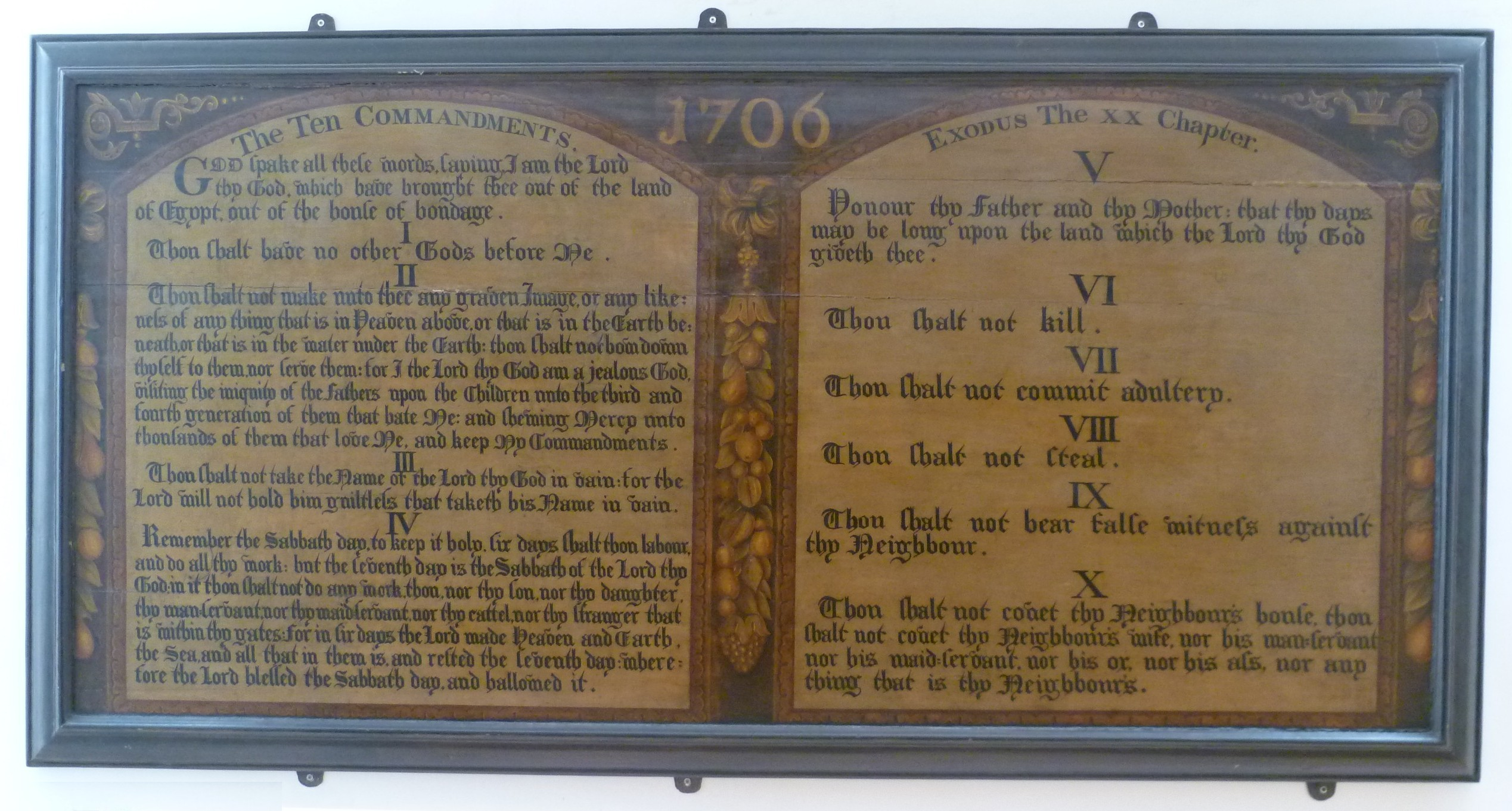 The panel is believed to be from the Trinity College Church in Edinburgh, which was demolished in 1848. It survived because it was displayed in Edinburgh prisons for the next 150 years.